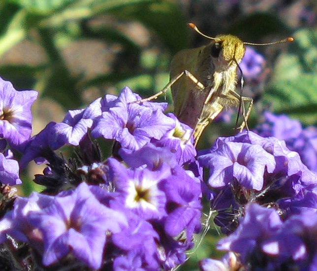 A Common hottentot skipper photographed on garden Heliotropium near Somerset West, South Africa